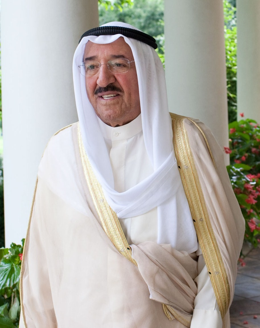 Al-Ahmad Al-Jaber Al-Sabah, the Amir of Kuwait, outside the Oval Office, about to walk to the State Dining Room on Aug. 3, 2009. (Official White House Photo by Pete Souza)